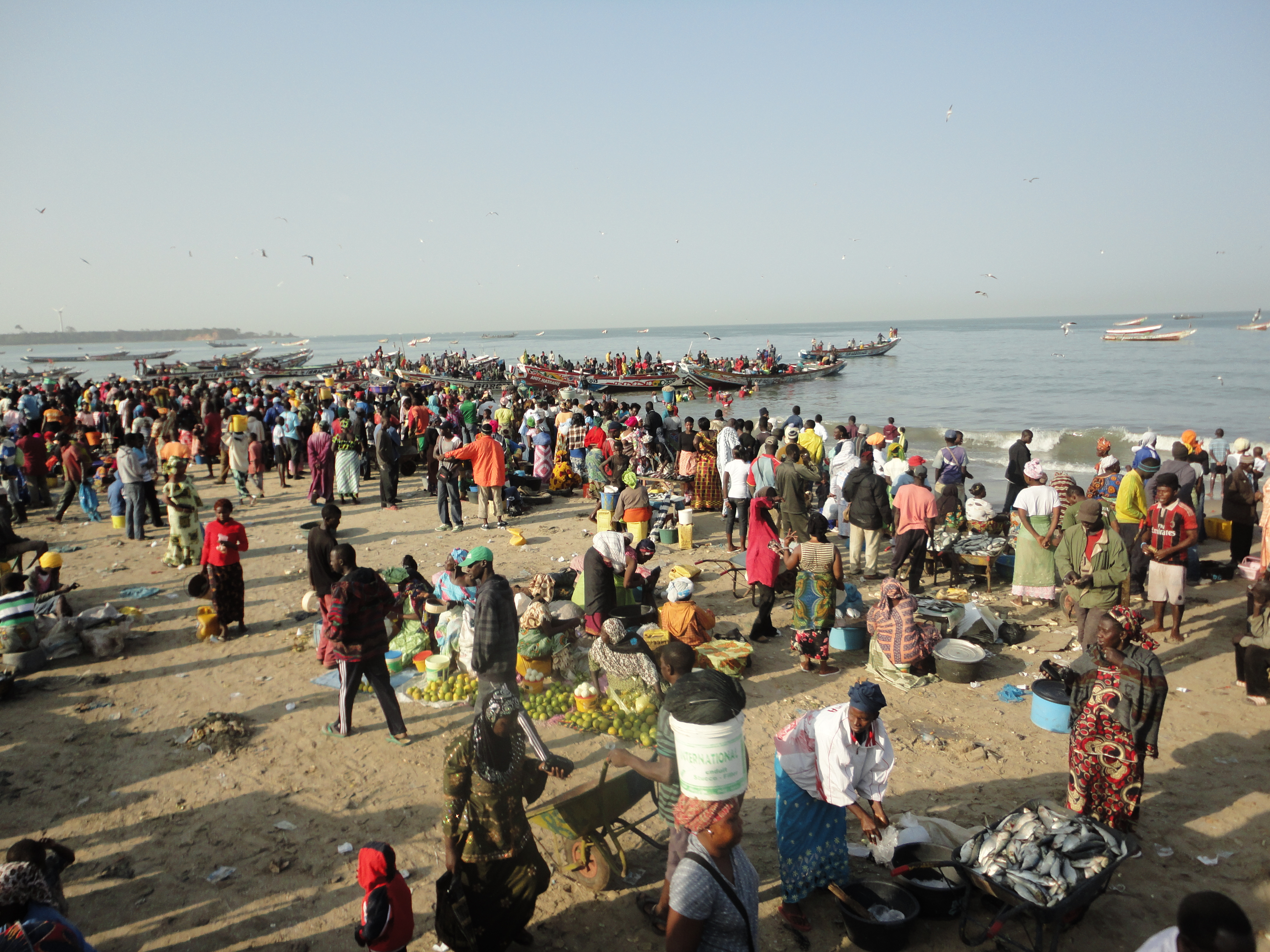 Traders at the fish market in the coast of Gambia...3 This is an image of "African people at work" from The Gambia